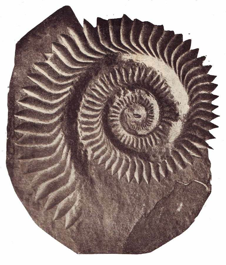 Helicoprion bessonovi, teeth at the front of the lower jaw (reversed for more natural position)